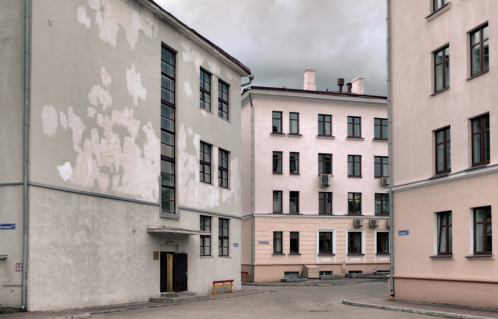 Backyards of Babrujskaja street, Minsk, Belarus; Belarusian State University; Research institute for nuclear problems to the left This is a photo of Belarusian heritage monument. Reference number: 712Г000216 ( WLM)